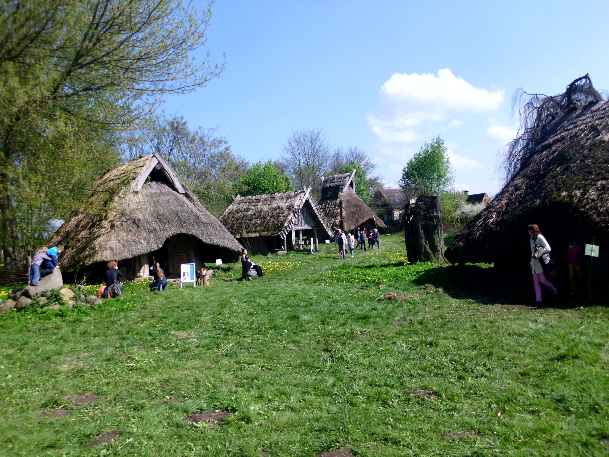 In the Archaeological open air museum "Slavic Village Passentin" , district Mecklenburgische Seenplatte, Mecklenburg-Vorpommern, Germany